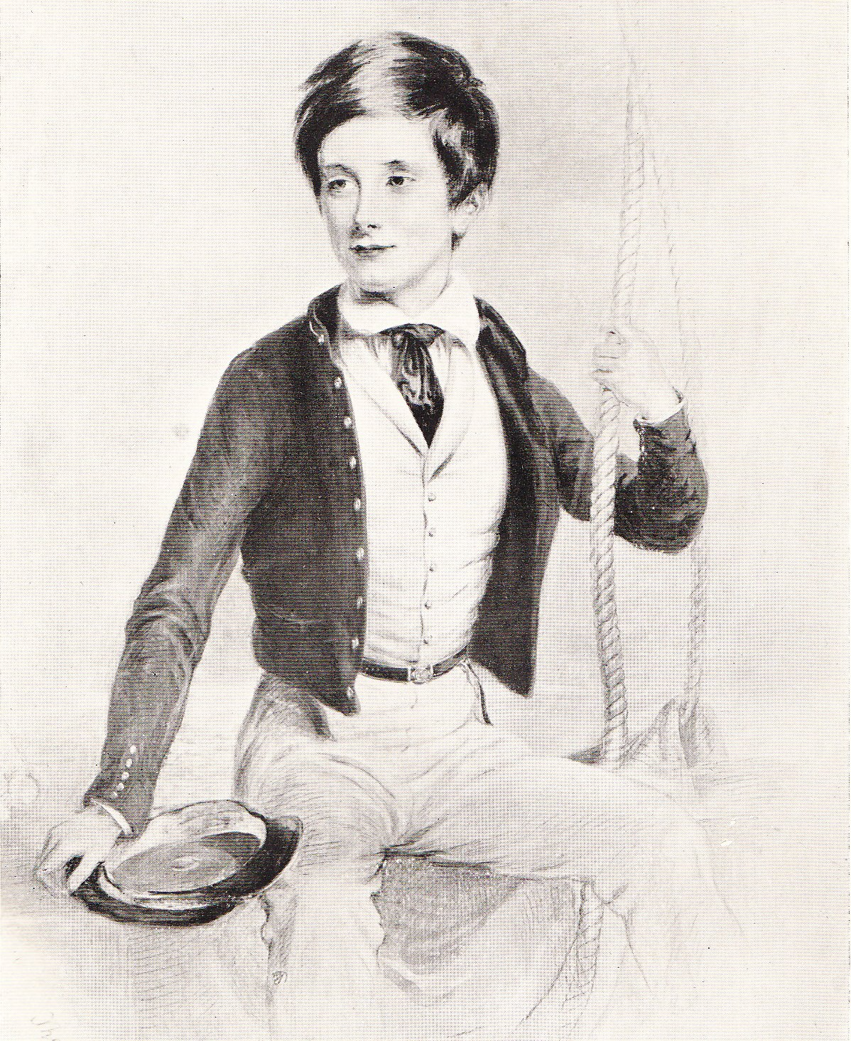 Painting of Sir Clements Markham as a naval cadet in 1844